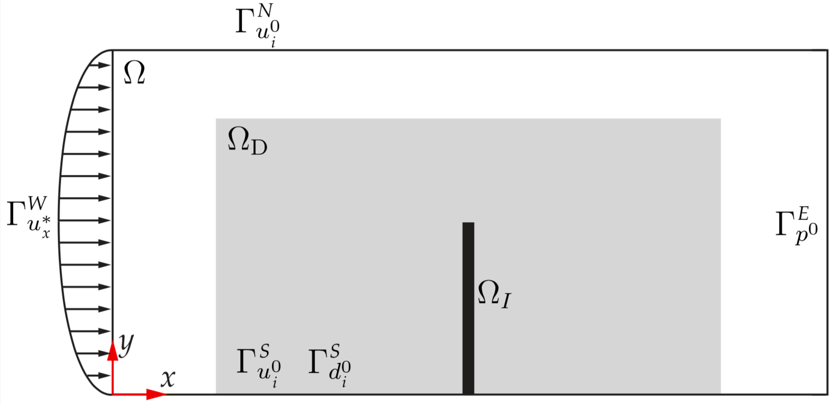 wall-flow-problem-topology-optimization-for-fluid-structure-interaction-problems